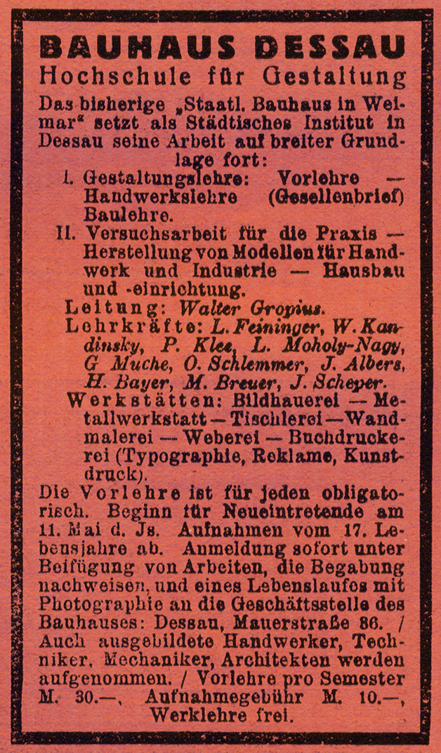 Advertising of Bauhaus in weekly Die Weltbühne, 04/28/1925